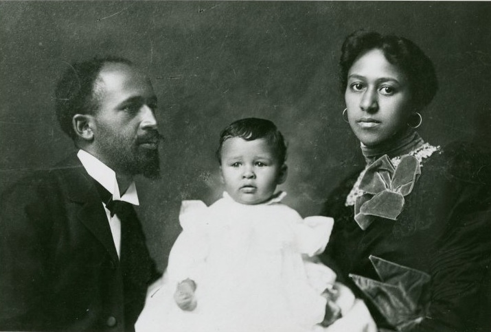 W.E. B. DuBois with his wife Nina and daughter Yolande.